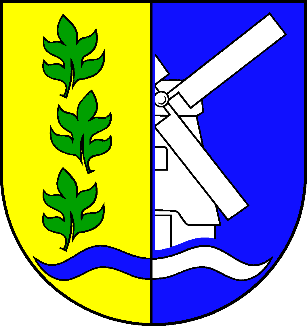 Coat of arms of the municipality Struckum in Schleswig-Holstein, Germany.